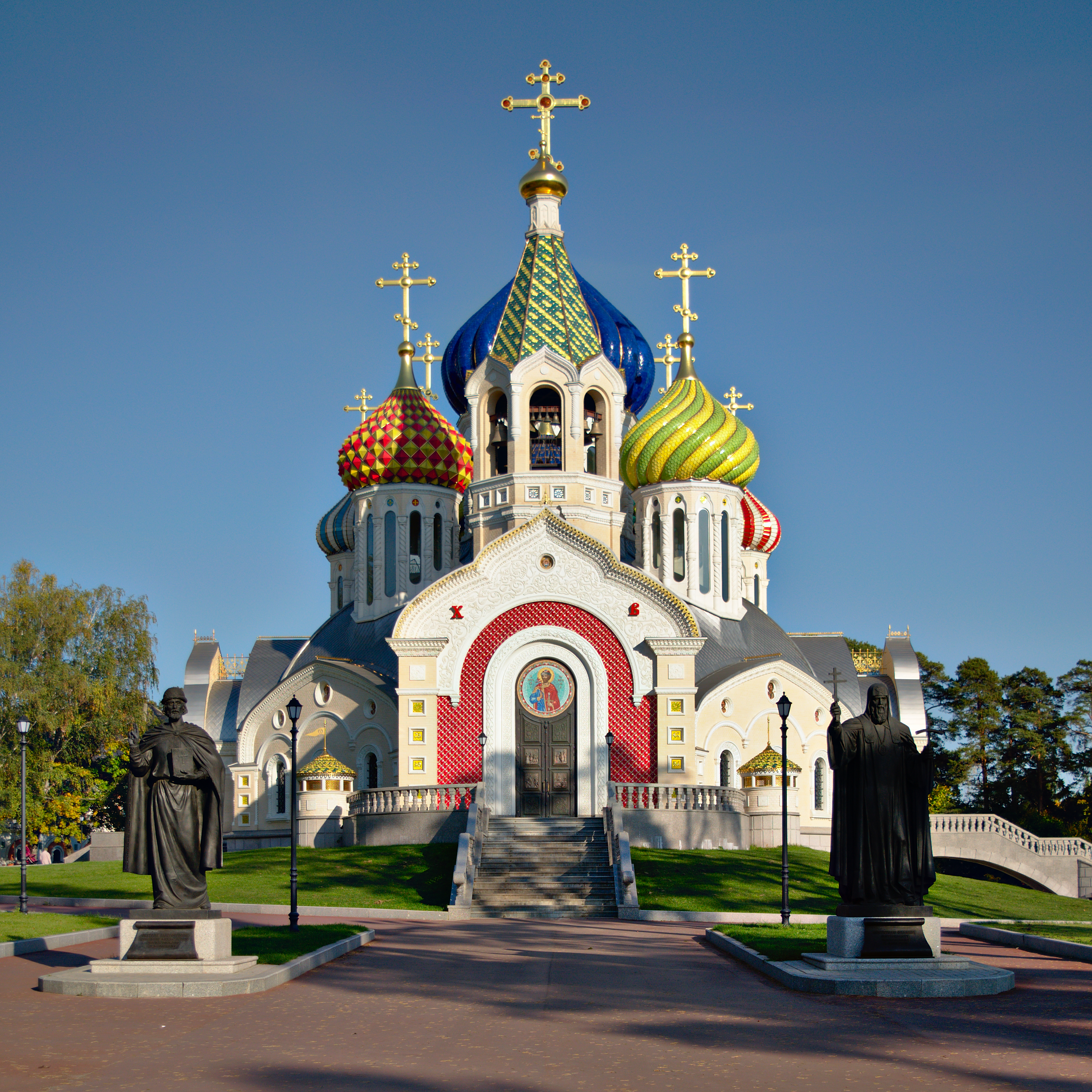 Church of the Holy Igor of Chernigov (Novo-Peredelkino)